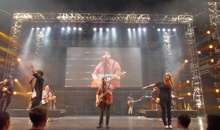 The Hillsong London worship team @ church in the dominion theatre